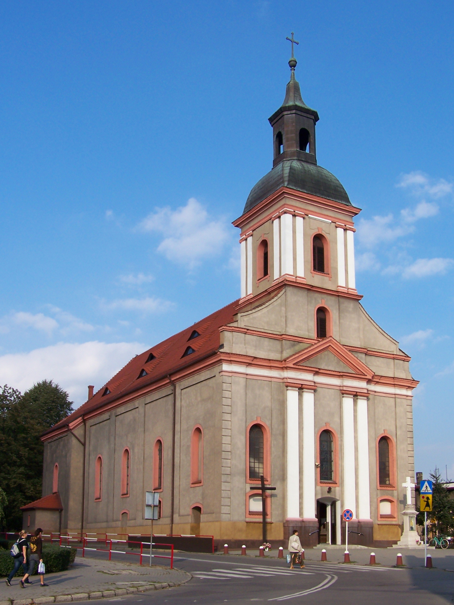 Church of St. Mary the Painful in Rybnik (Poland).